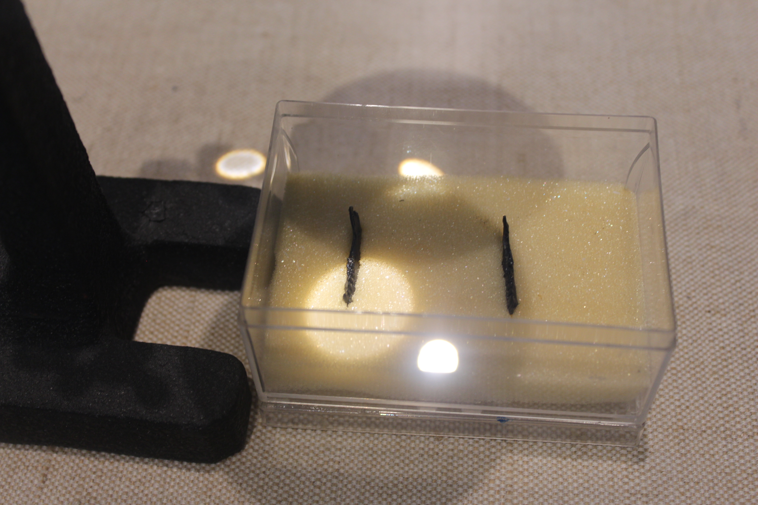 Holotype of Eosimias centennicus on display at the Paleozoological Museum of China.